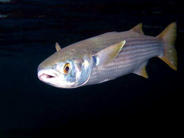 Mugil cephalus photographed in Minorca, Spain.